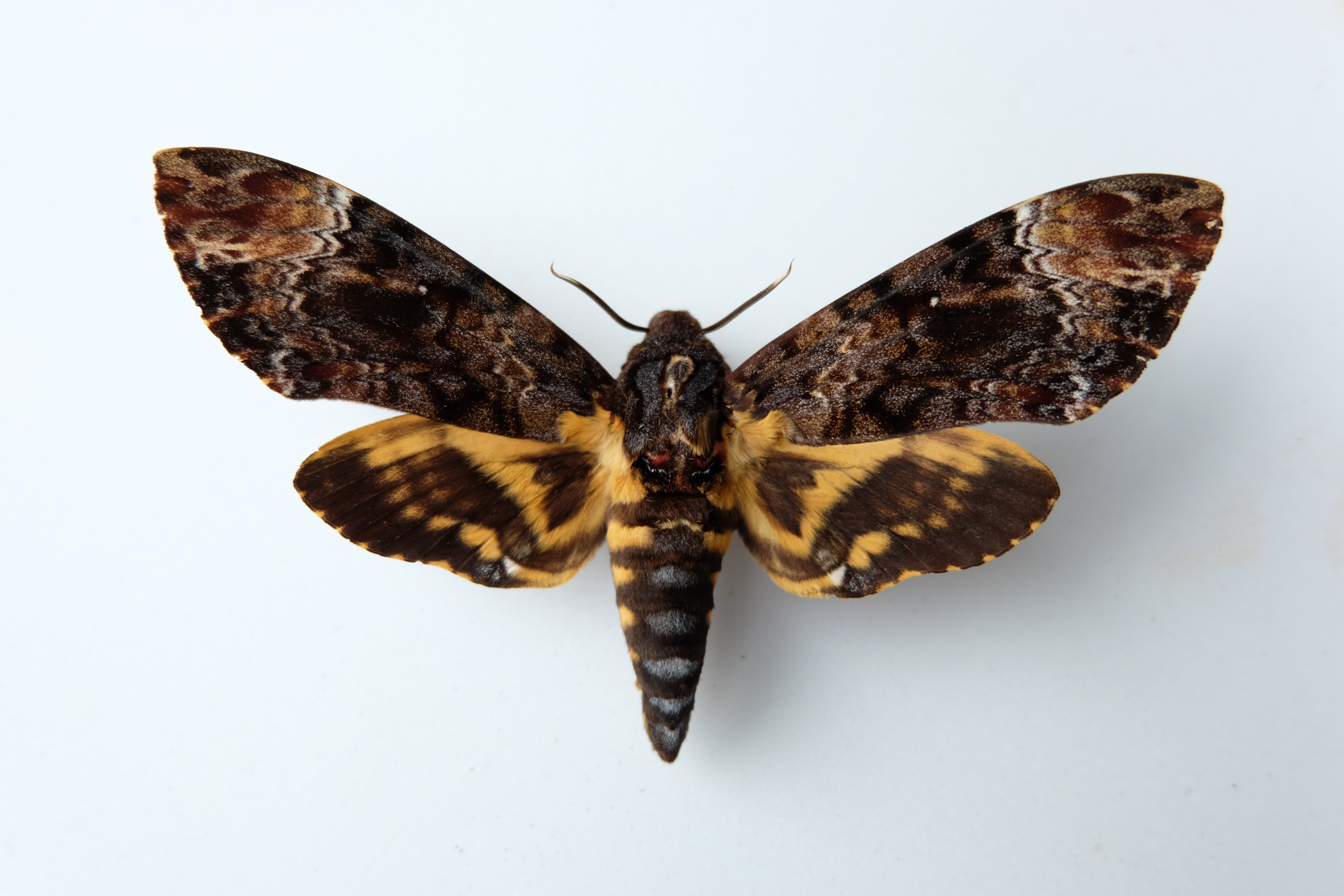 Acherontia lachesis